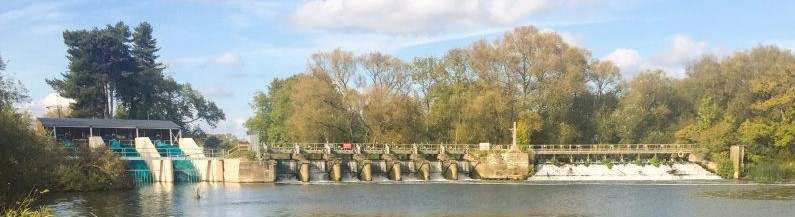 Sandford Weir with hydroelectric dam (memorial visible)